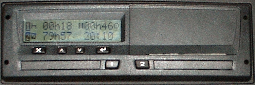 Digital tachograph